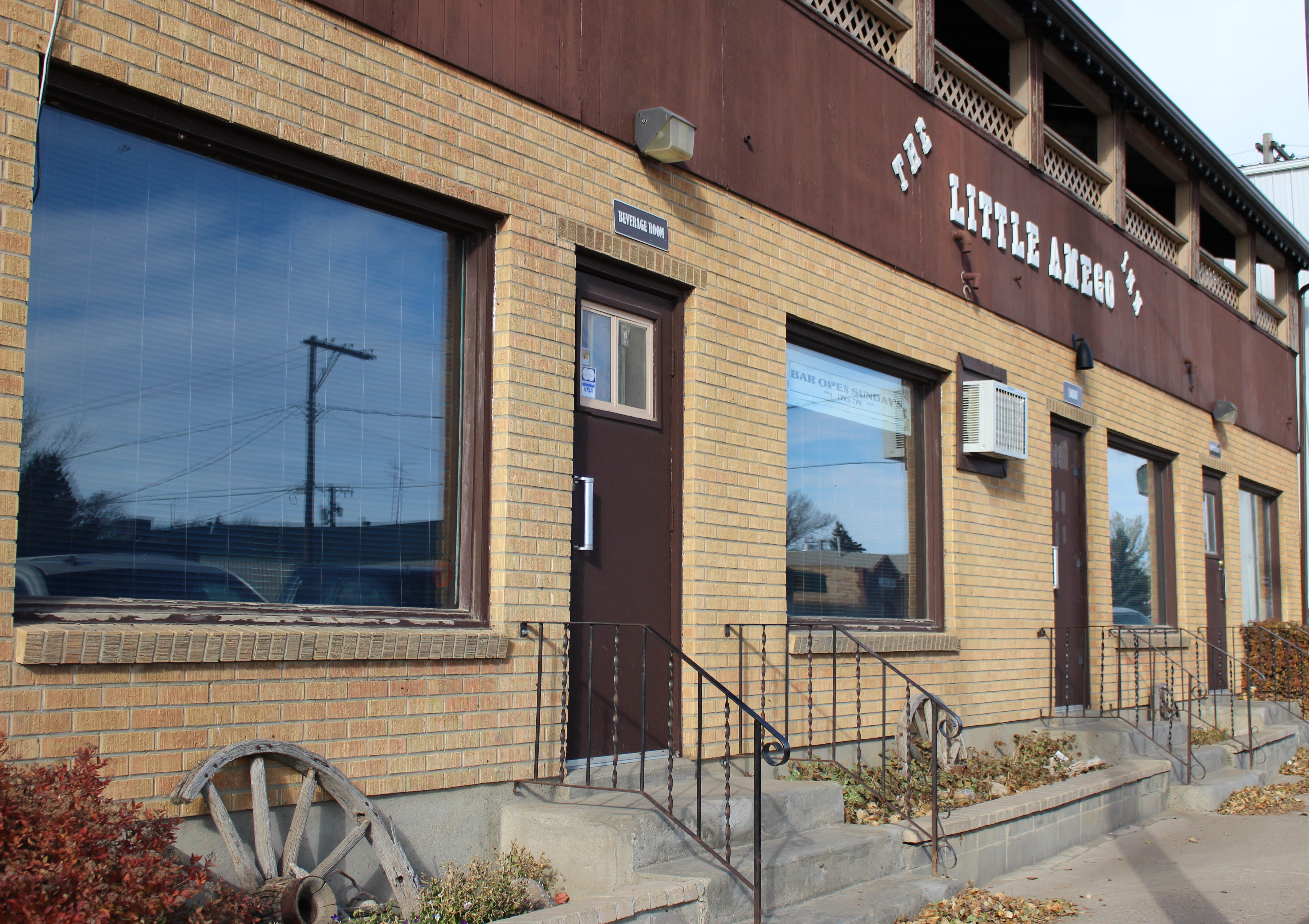 The Little Amego Inn in Ogema, Saskatchewan.